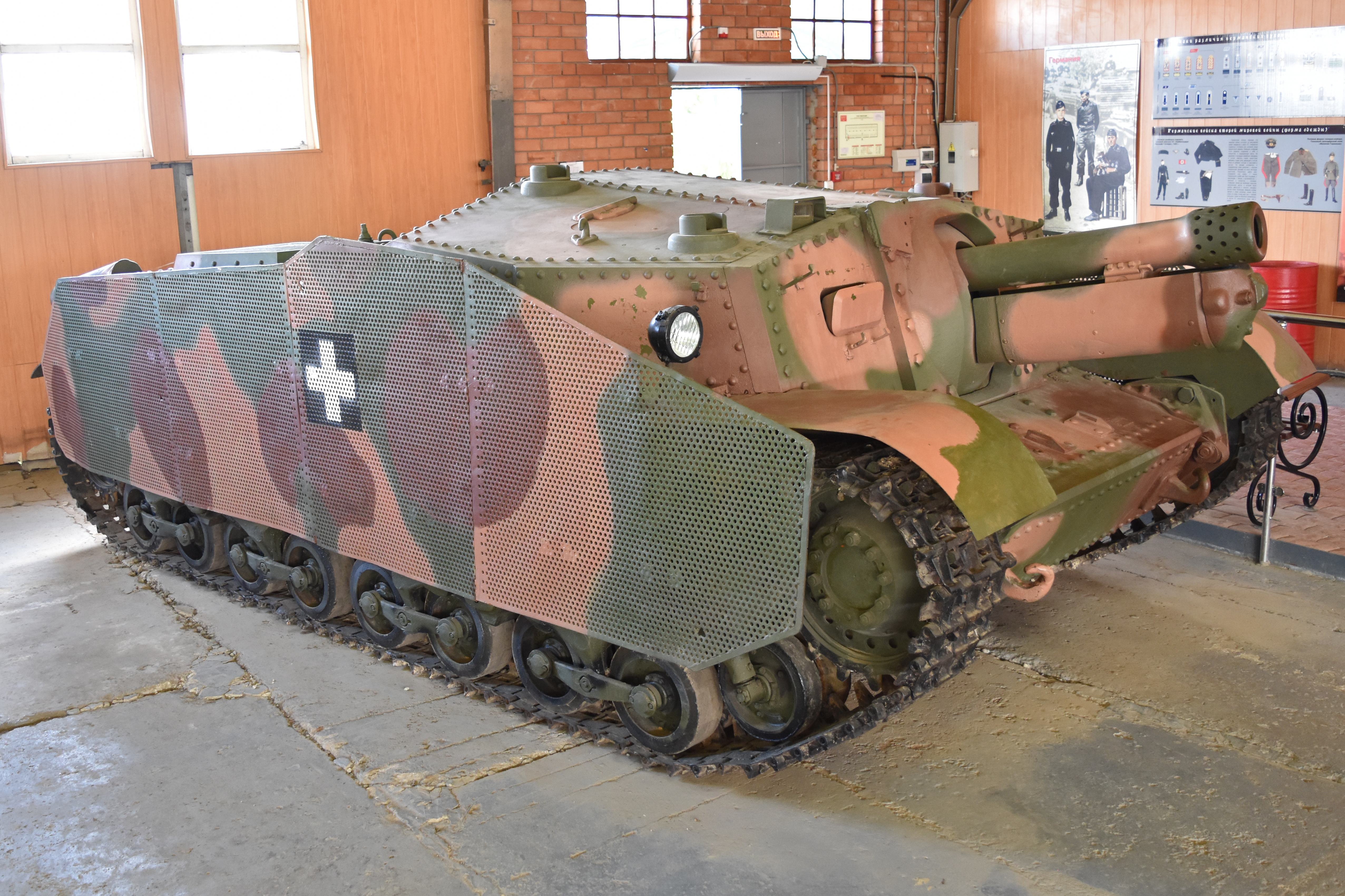 Manufacturer:- Manfred Weiss Built:-1943-1944 Total Production:- 66 Main Armament:- 105mm MÁVAG 40/43M Howitzer Hungarian self propelled gun based on the Turan chassis. 66 were built before Soviet occupation. This is the only surviving example and is fitted with Thoma Skirts spaced armour. It is on display in what is best known as Hall 5 of the Kubinka Tank Museum, although its official title is now Pavilion 5 in Area 2 of the Park Patriot museum. Kubinka, Moscow Oblast, Russia. 24th August 2017.